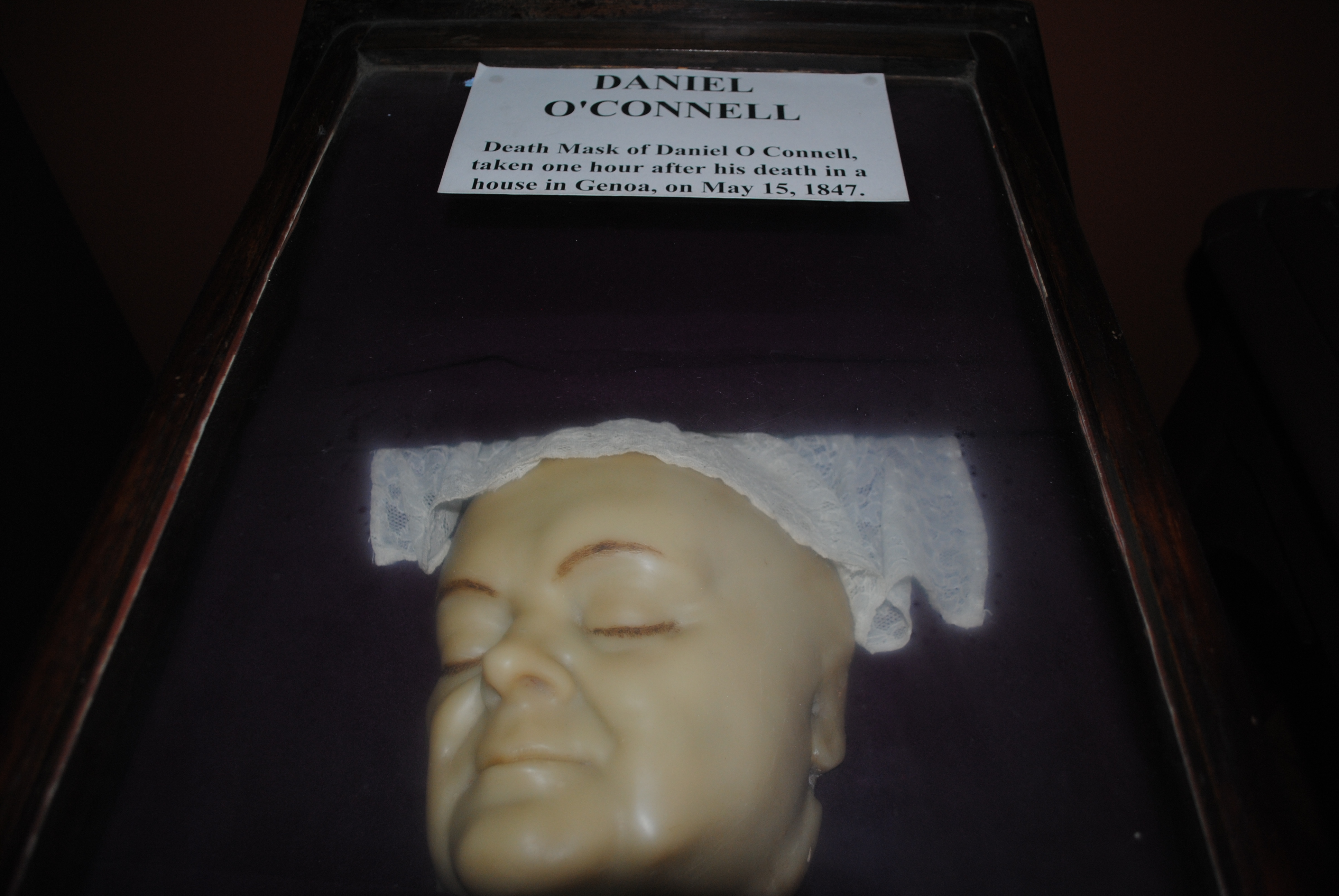 A death mask created within hours of the death Of Daniel O'Connell in Genoa. 1847.